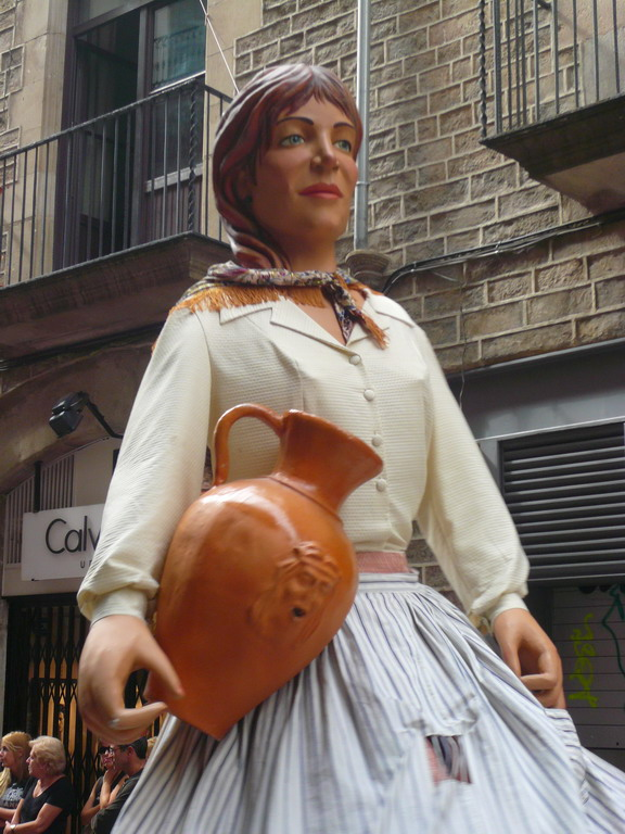 Giant "Sagrerina" from la Sagrera in Barcelona. Photo taken in Pi street.